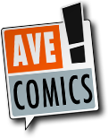 Ave!Comics' logo